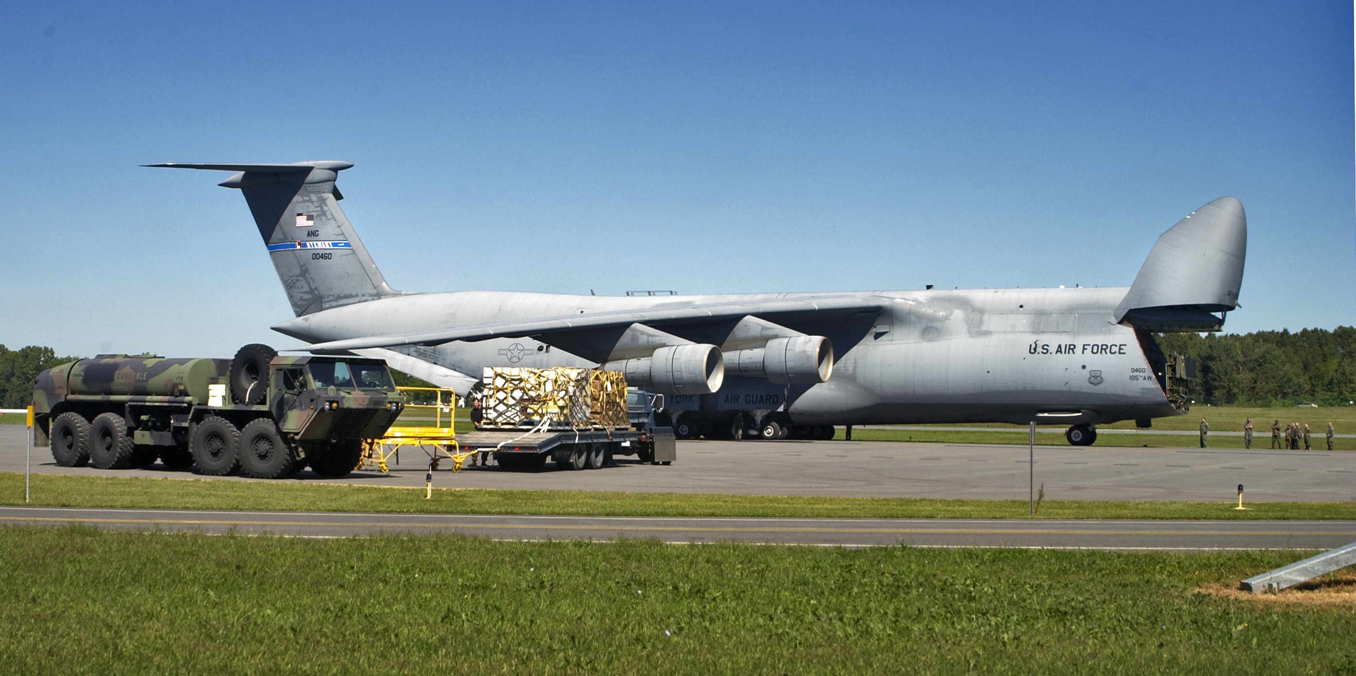 A U.S. Air Force Lockheed C-5A Galaxy (s/n 70-0460) sits on the flightline before cargo is loaded on 5 September 2005 by Airmen with the 109th Aerial Port Squadron at the Albany International Airport. The cargo was bound for Gulfport, Mississippi, in support of Hurricane Katrina relief operations. The Galaxy belonged to the New York Air National Guard's 105th Airlift Wing that had flown 12 missions delivering about 1.5 million pounds of cargo and 400 passengers in support of the relief effort.